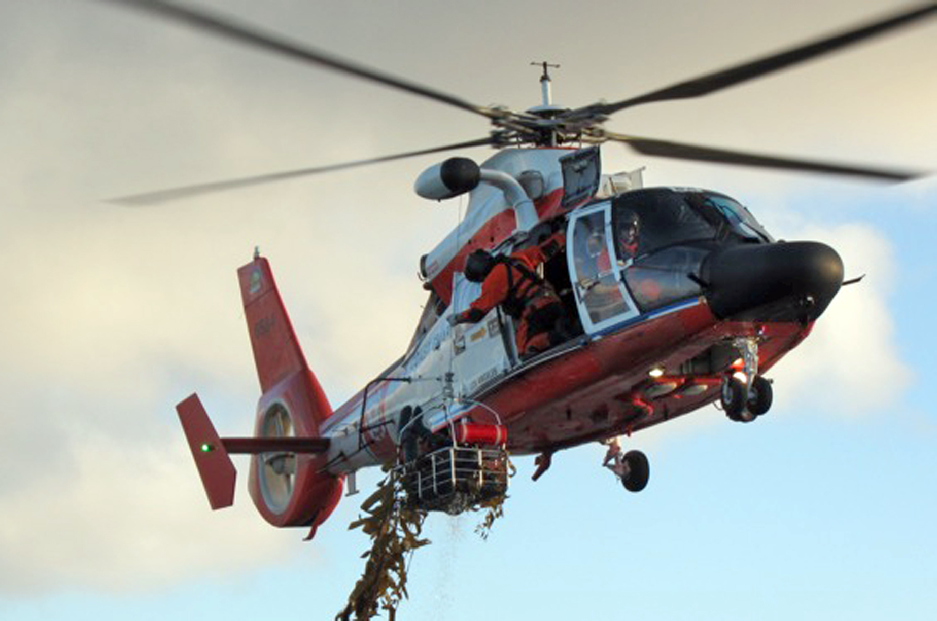 SAN PEDRO, Calif. - The Coast Guard rescued three commercial fishermen after their 33-foot vessel became disabled and began drifting dangerously close to the rocks off of the westernmost point of San Miguel Island in the Channel Islands chain, at about 4 p.m. Sunday.A Coast Guard MH-65 Dolphin helicopter from Air Station Los Angeles hoisted the trio and flew them back to Santa Barbara , California., with no injuries.The drama began when the commercial fishing boat, based out of Santa Barbara, became disabled about 100 yards from the rocks. The men dropped an anchor but it quickly broke free and the second anchor started to drag in the direction of the shoreline. The master radioed the Coast Guard for help at about 2:30 p.m.Before hoisting the men, the Coast Guard directed them to set off their Electronic Position Indicating Radio Beacon so Command Center and environmental response personnel could keep tabs of the vessel. The last position of the boat was roughly 35 yards from the rocks.Coast Guard environmental response personnel are monitoring the vessel because it is reported to have about 40 gallons of fuel onboard and may come aground in an environmentally sensitive area. Photograph courtesy of vessel owner. Source: Personal Injury Lawyers in South Bend Indiana